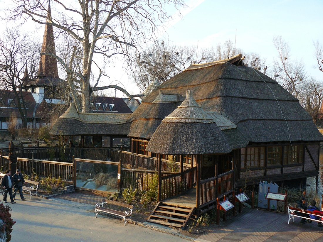 Crocodile-house in Budapest Zoo